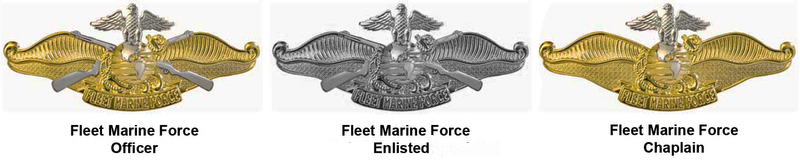 Fleet Marine Force insignia authorized for US Naval personnel: Officer, Enlisted, and Chaplin